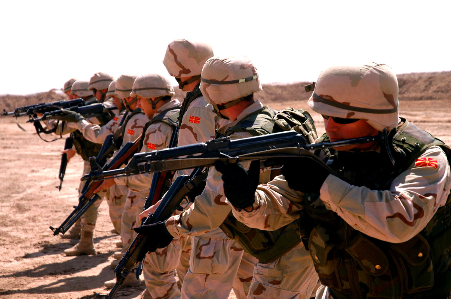 CAMP TAJI, Iraq – Soldiers from the 2nd Battalion, 2nd Mechanized Infantry Brigade, Macedonian army, practice their reflexive-fire skills April 18 at a firing range on Camp Taji, northwest of Baghdad. Soldiers from 2nd Battalion, 11 Field Artillery Regiment, “On Time,” 2nd Stryker Brigade Combat Team, “Warrior,” 25th Infantry Division, Multi-National Division – Baghdad work with the Macedonian platoon to ensure the safety of the inhabitants of Camp Taji